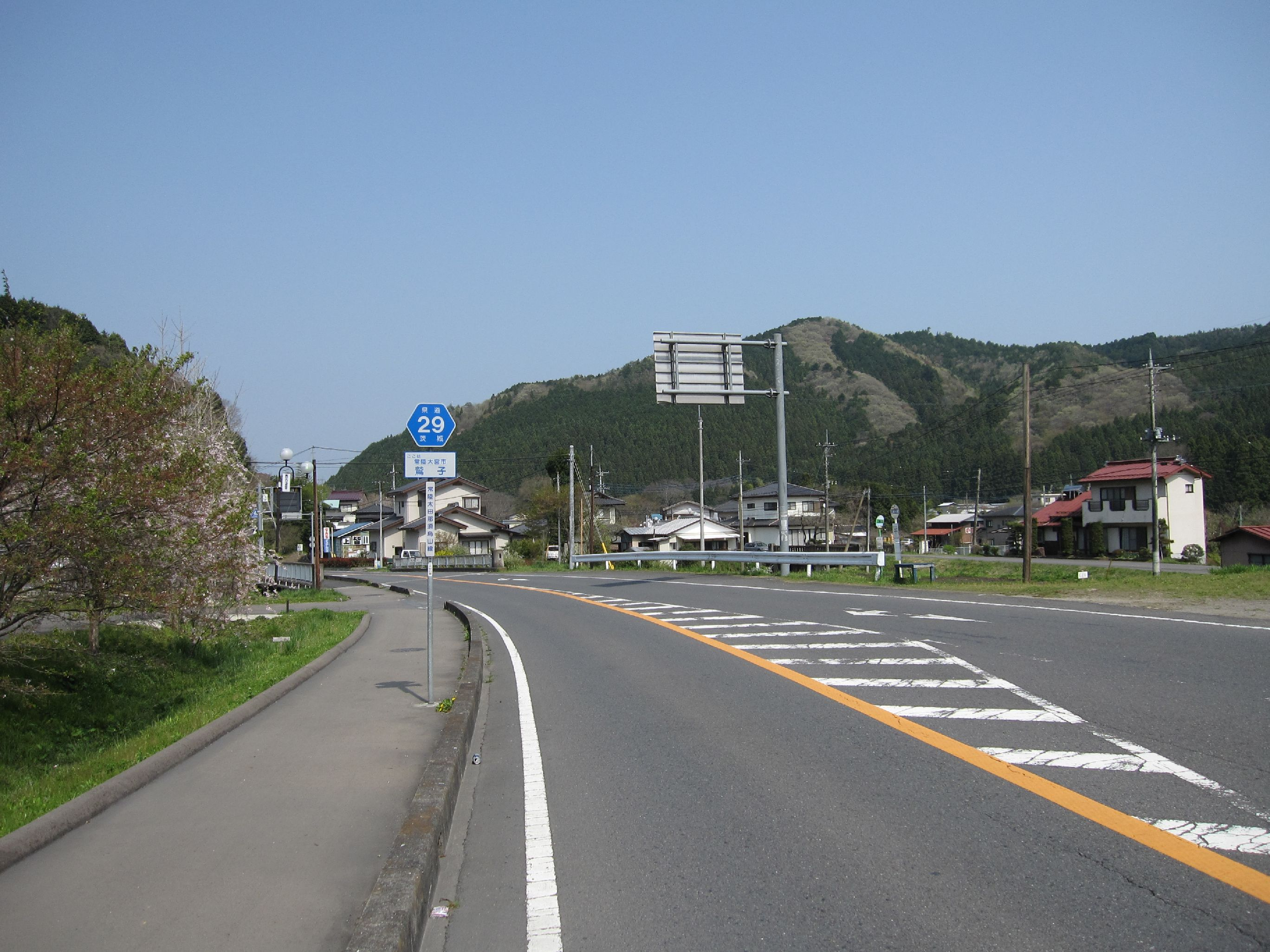 The Ibaraki Prefectural Road Route 29 in Torinoko, Hitachiomiya City